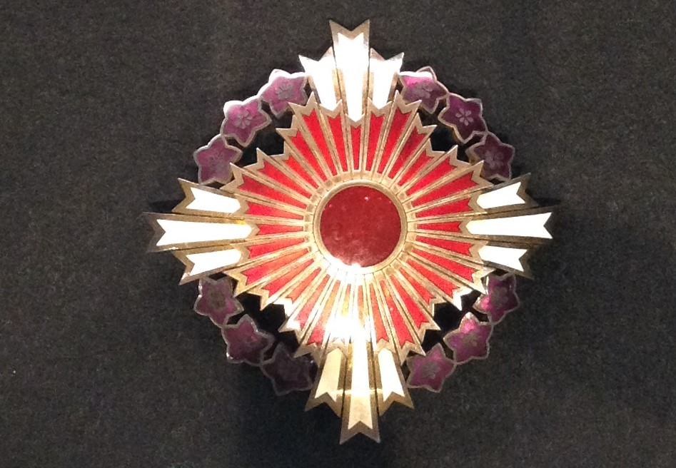 Grand Cordon of the Order of the Paulownia Flowers